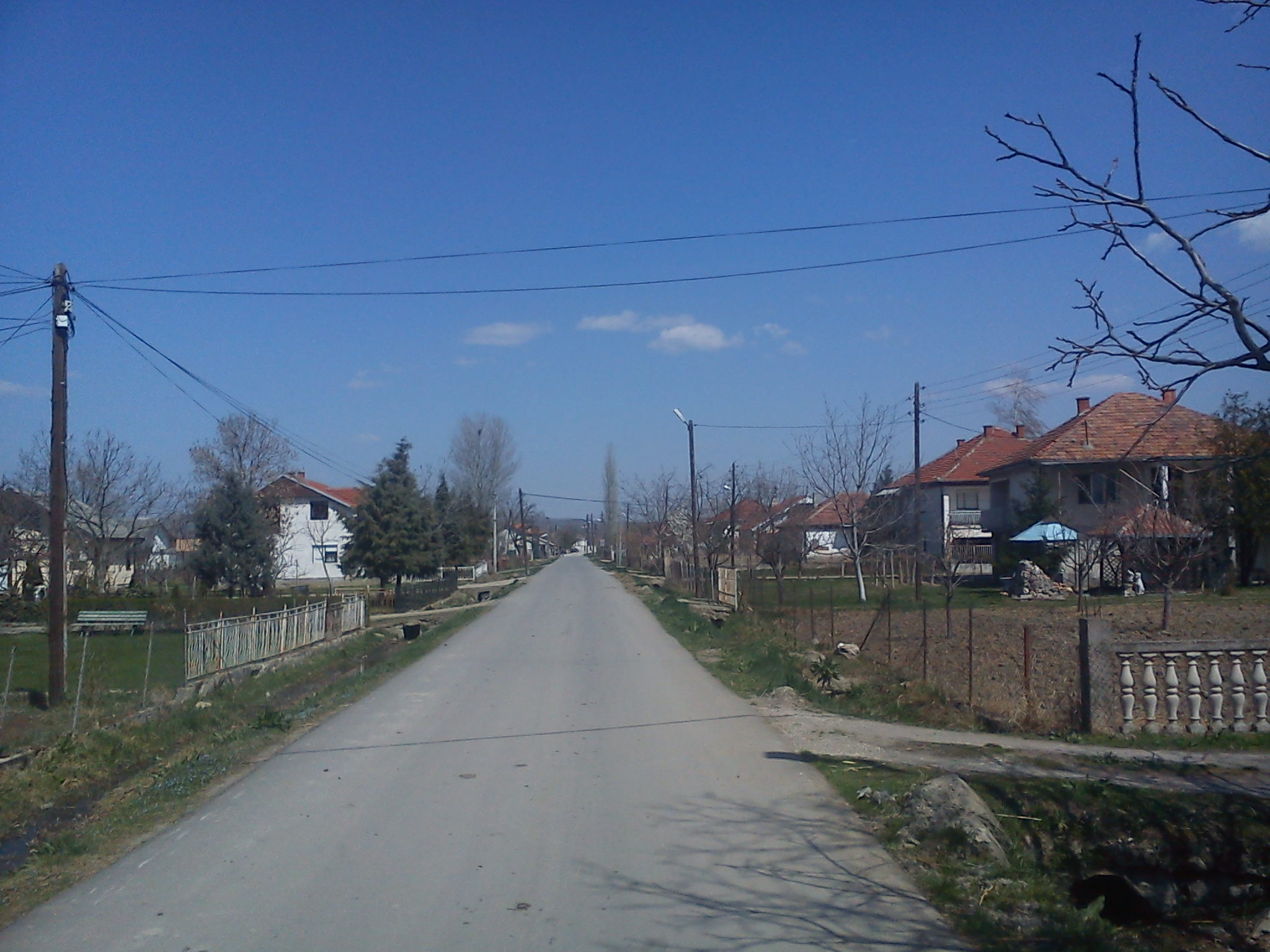 The main street in the village of Mralino, Macedonia